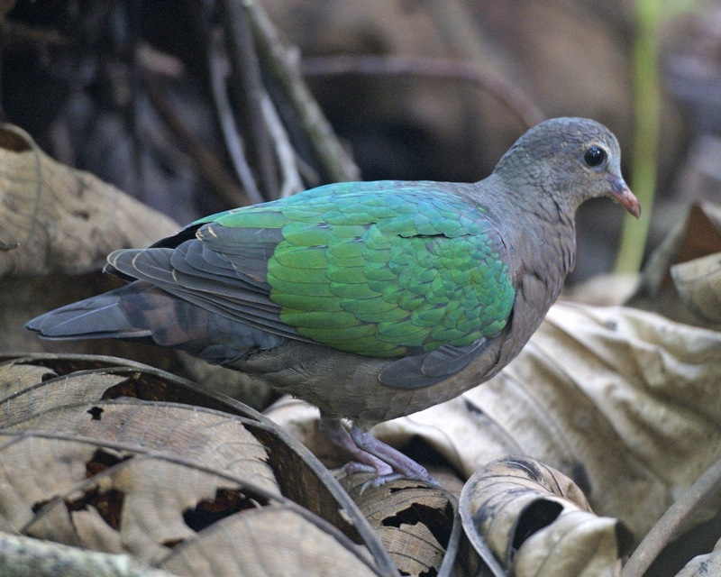 The thought has occurred that such a brightly coloured bird has little chance surviving in the jungle. However, watching it move amongst leaf litter and undergrowth, an appreciation dawned of how low light and the brownish background interact to make the bird near invisible when it is foraging. Emerald Dove (Chalcophaps indica indica) Emerald Dove Chalcophaps indica Sime Forest, Singapore 5th. November 2008 690V5260